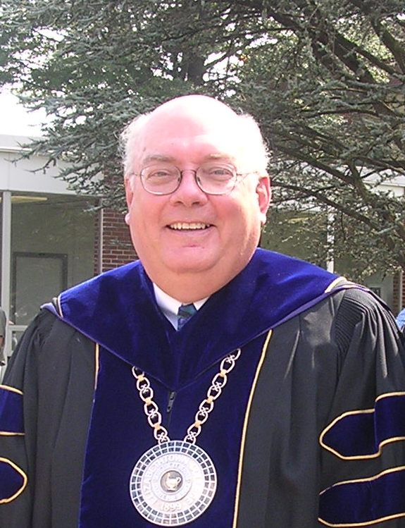 Author: Ben Osterhout (August 26, 2004) Taken at Elizabethtown College during the Convocation exercises.